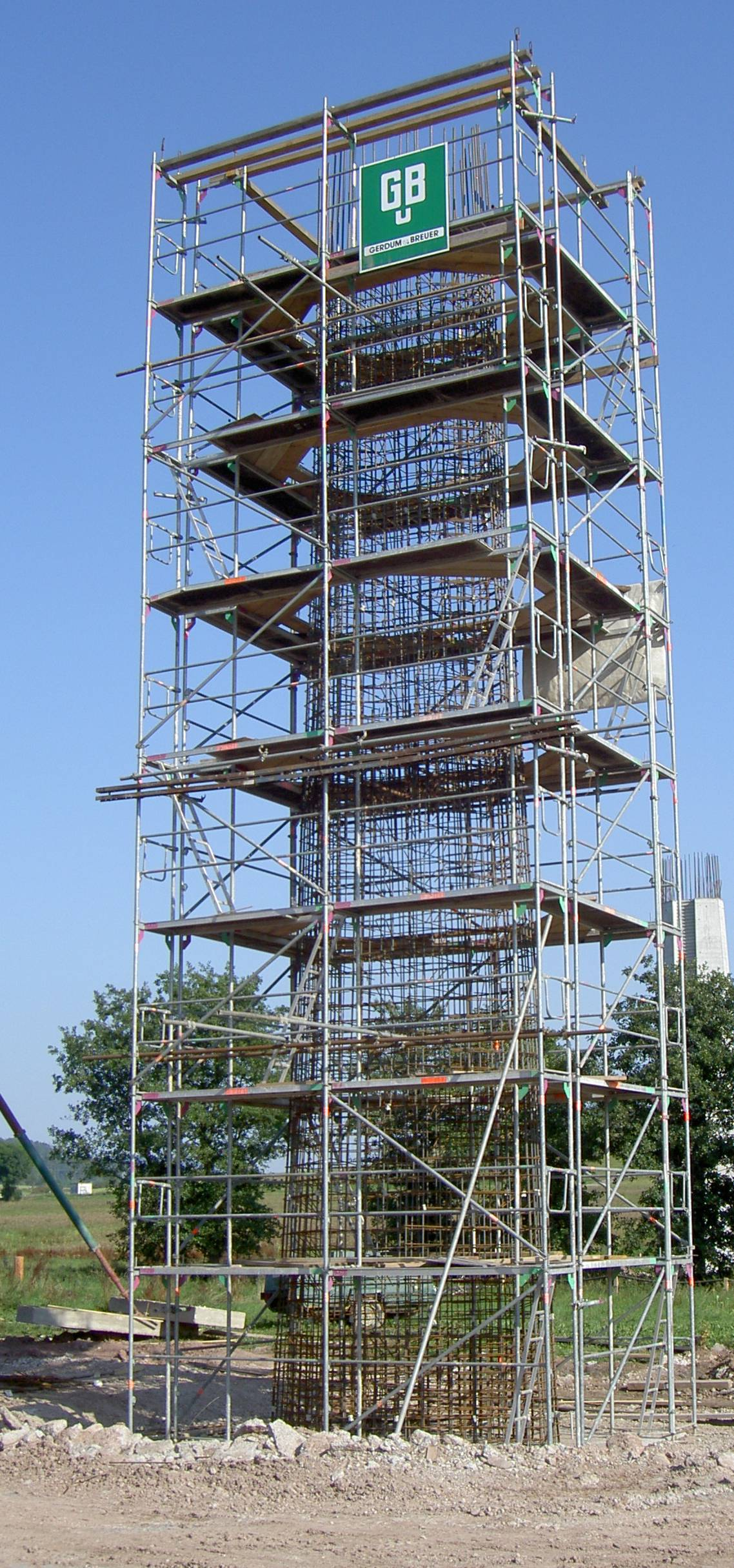 reinforcement of concrete bridge pillar